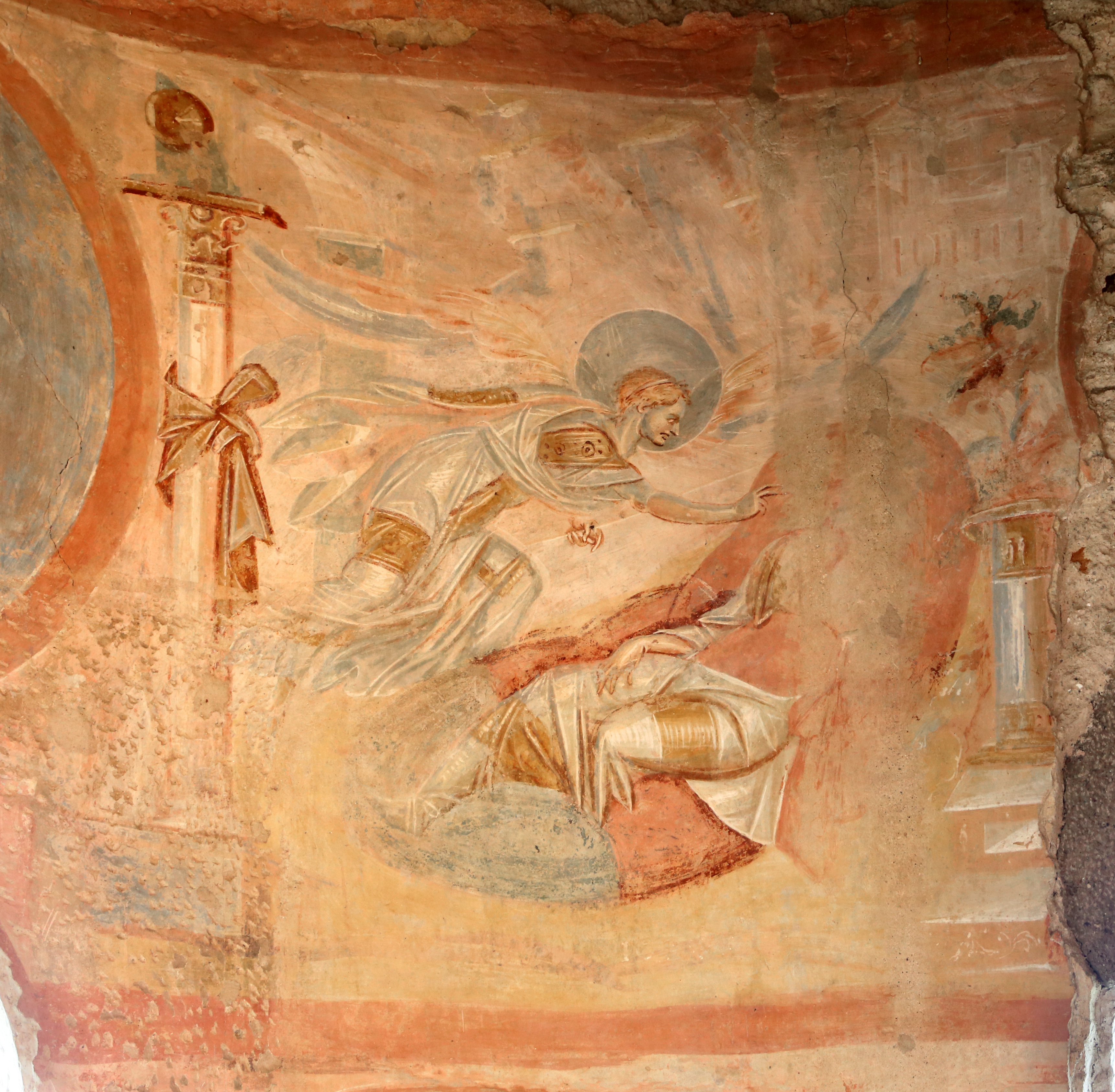 Santa Maria foris portas in Castelseprio